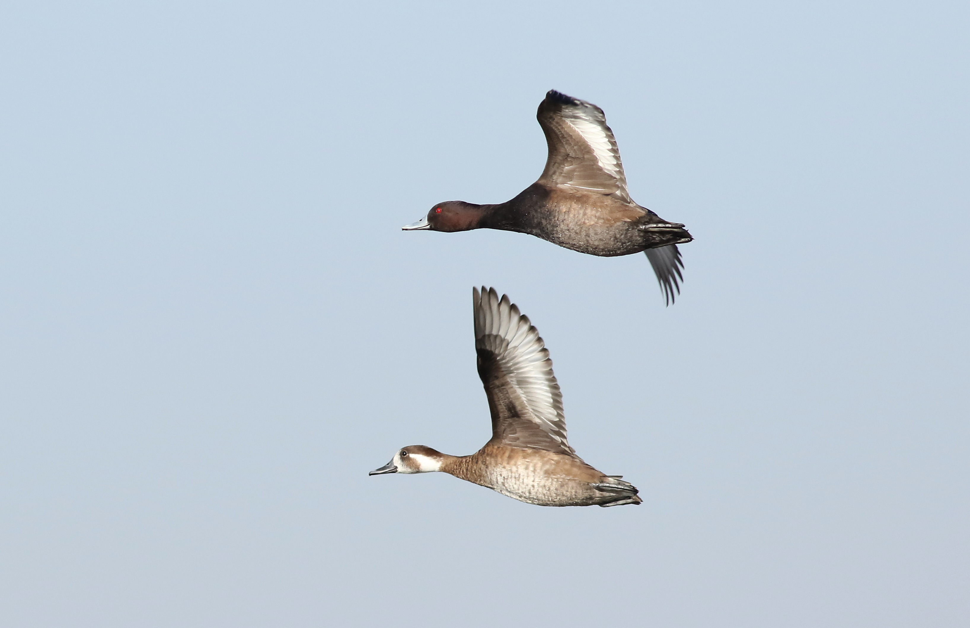 Southern Pochard, Netta erythrophthalma, at Marievale Nature Reserve, Gauteng, South Africa